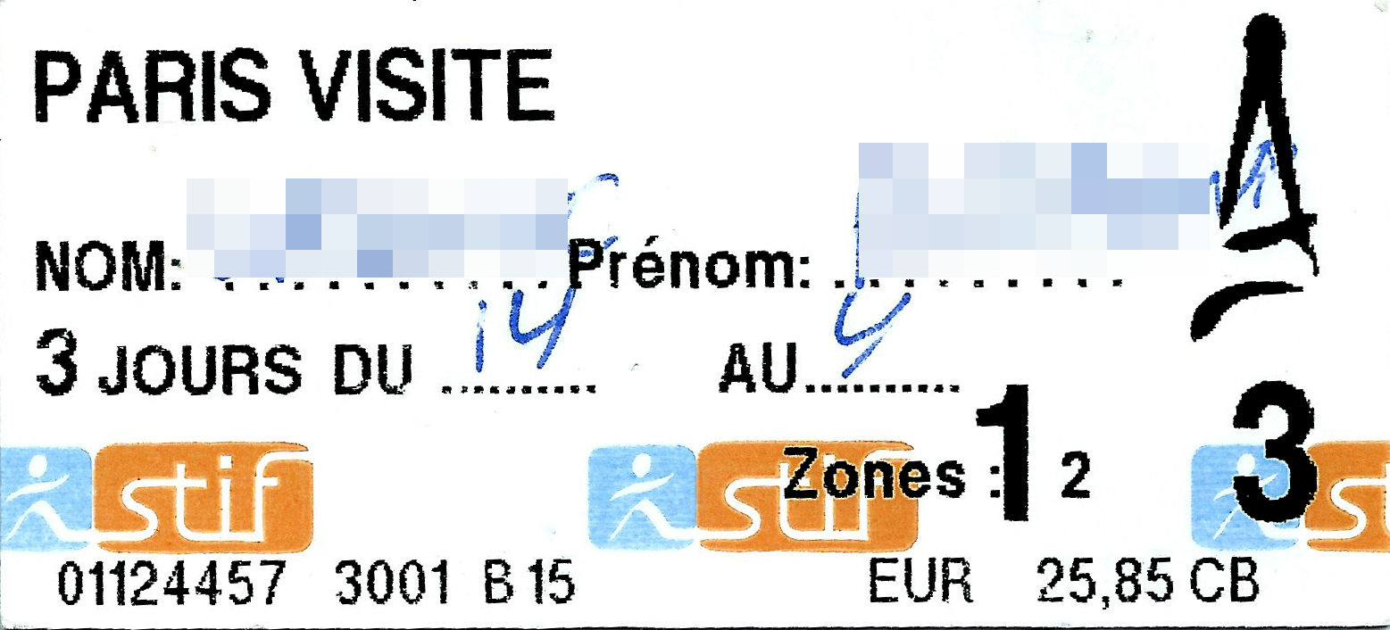 Paris Visite ticket for 3 days, 3 zones